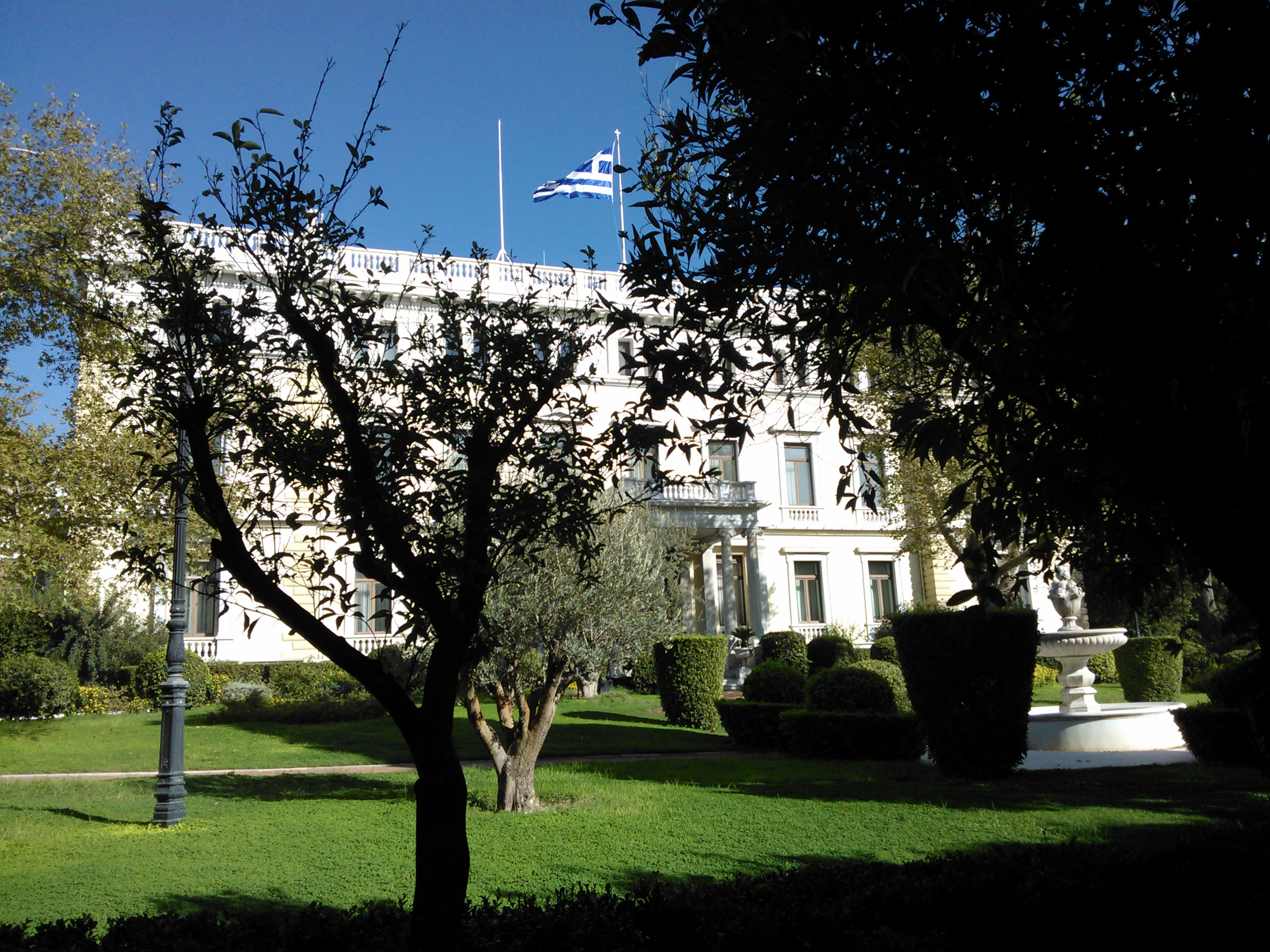 View of the Presidential Mansion in Athens and its main entrance in 2012